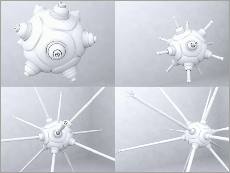 3D visualization of Utility Foglet, Author Stimulacra, LLC & ThinkTank Animations URL this image is posted by owner of copyright, nanotechnology